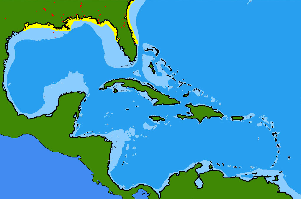 Morone saxatilis range